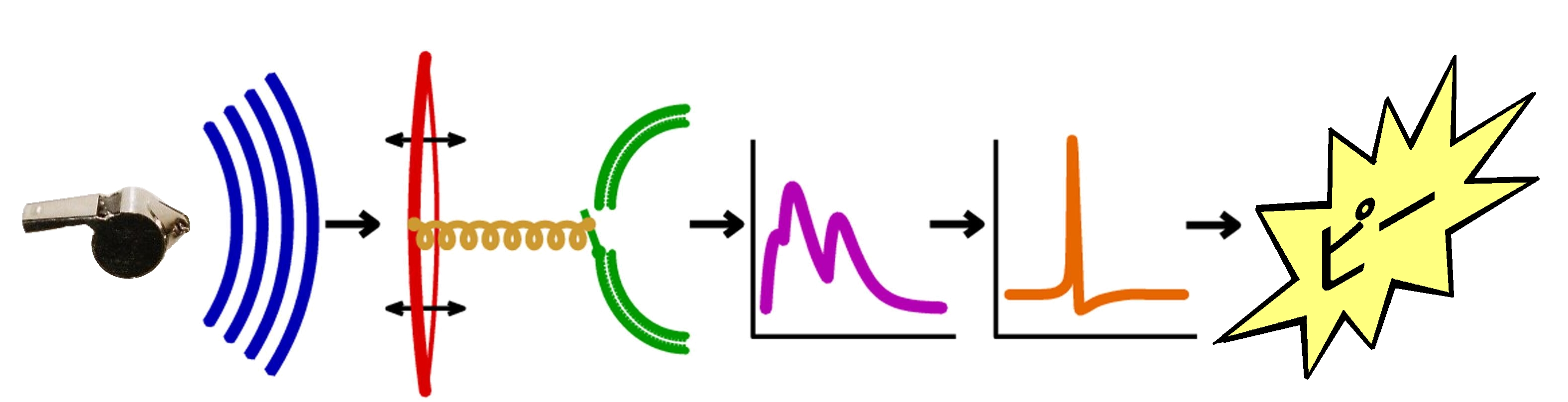 A schematic representation of auditory signaling from the whistle to quale of it's sound. (Left: whistle. Blue: sound waves. Red: eardrum. Yellow: cochlea. Green: auditory receptor cells. Purple: frequency spectrum of hearing response. Orange: nerve impulse. Right: quale of whistle sound)